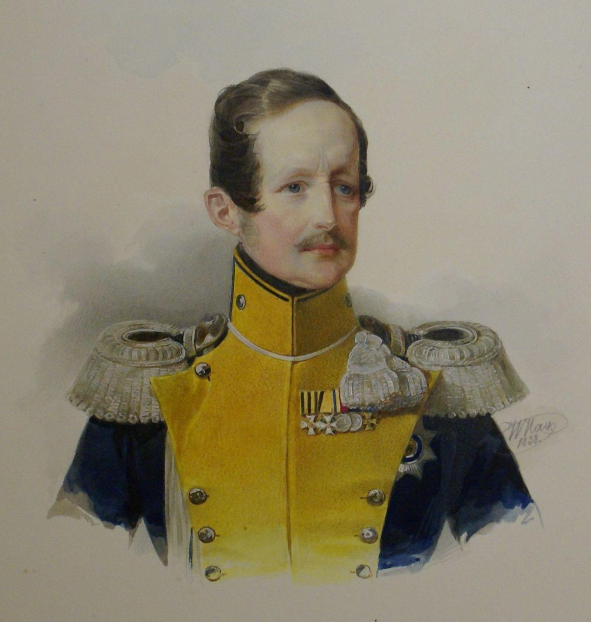 William, Duke of Nassau in uniform of Litovsky Uhlan Regiment of the Imperial Russian Army.